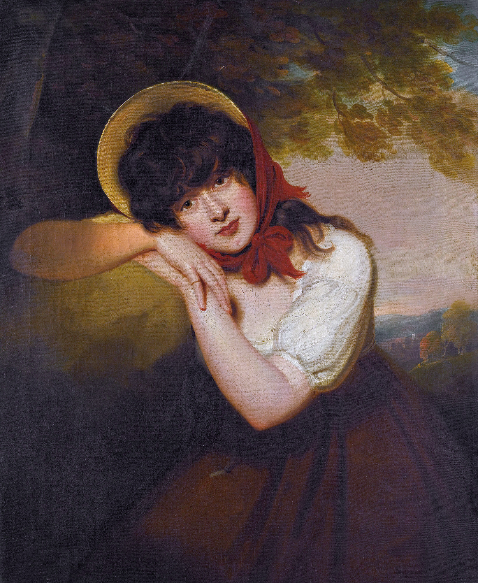 Maria Tollemache, later Marchioness of Ailesbury (d.1893) oil on canvas 89 x 70 cm